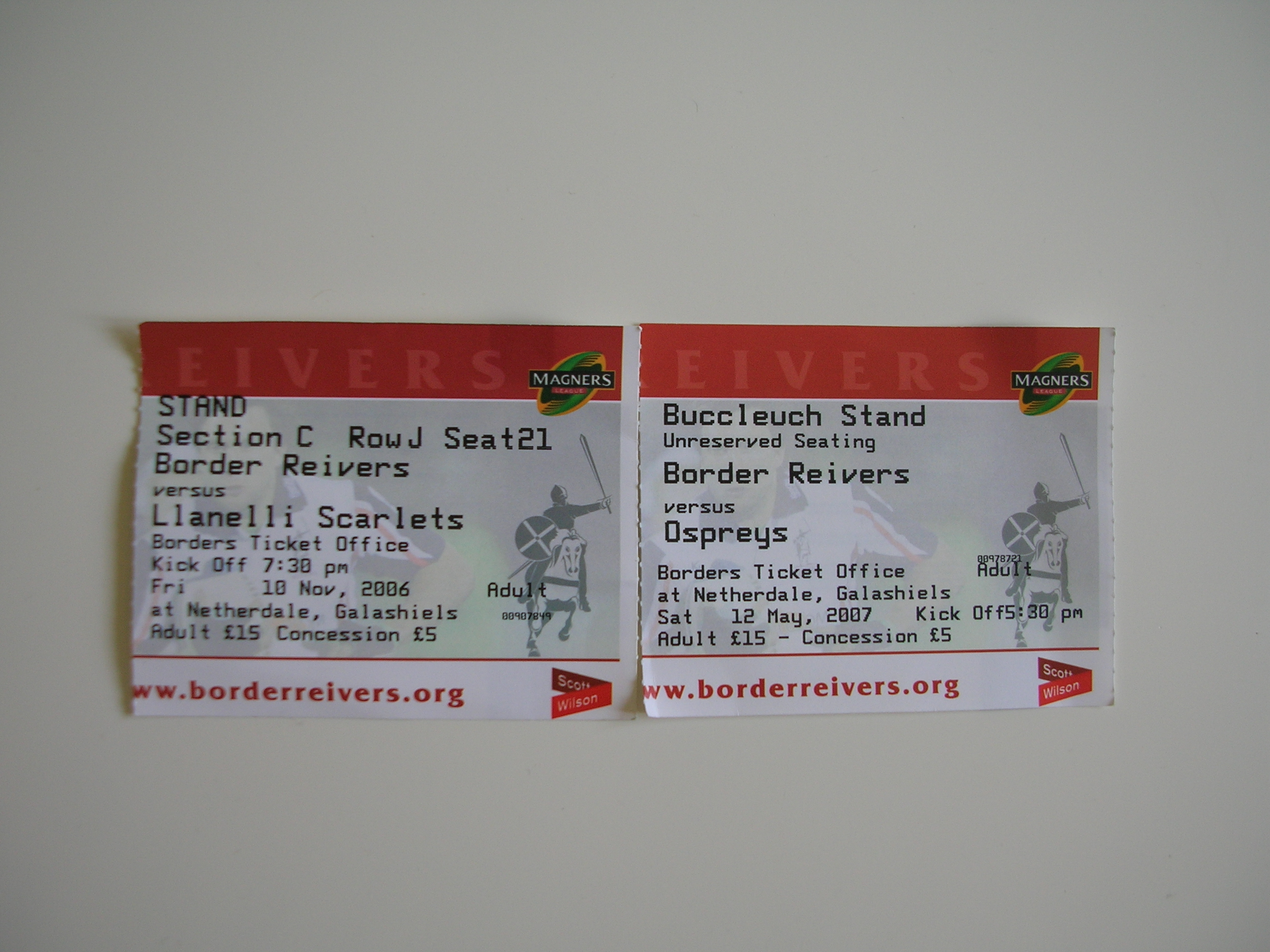 Two tickets for the Border Reivers, the left from November 2006 for the game against the Llanelli Scarlets, the right for the last ever Reivers game, against the Ospreys in May 2007.